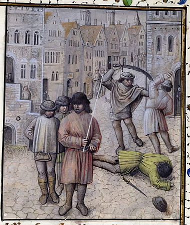 Jacob van Artevelde leads a rebellion in Ghent against the counts of Flanders in 1340 (Ms 659 fol.221r, 1477)